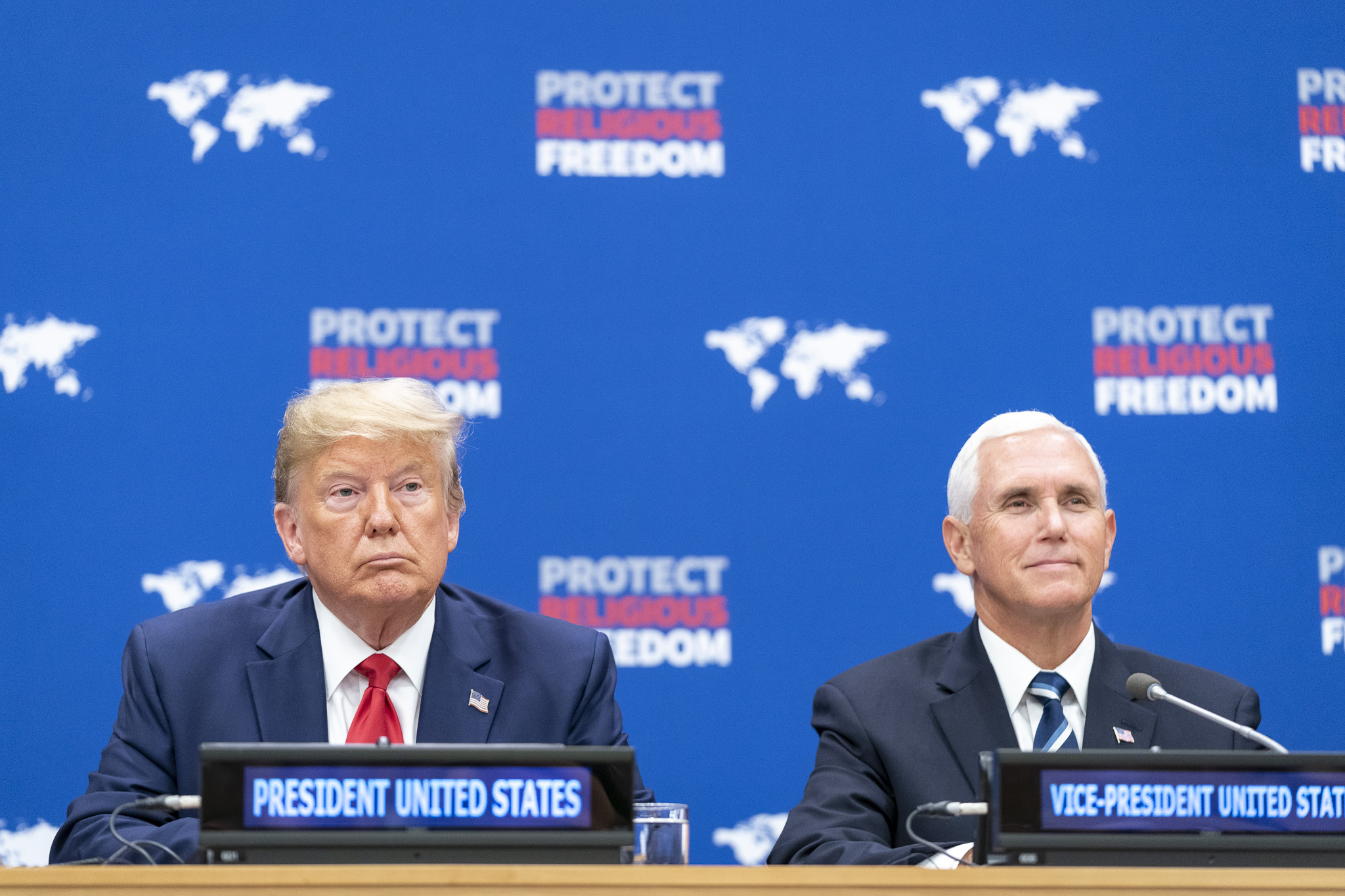 President Donald J. Trump delivers remarks at a United Nations event on Religious Freedom Monday, Sept. 23, 2019, at the United Nations Headquarters in New York City. (Official White House Photo by Shealah Craighead)